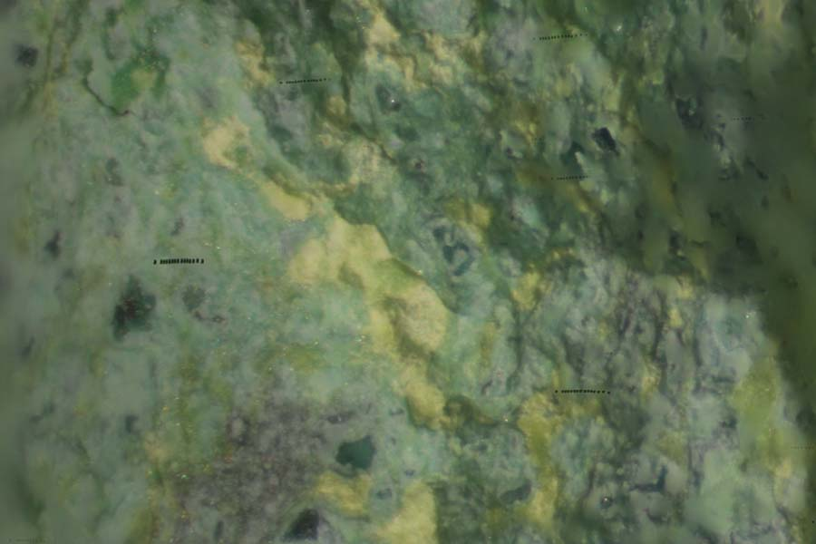 Thometzekite is an extremely rare mineral from Tsumeb, its type locality, and labeled as RRR in Gebhard Tsumeb book (single occurrence with less than 10 specimens) and present here as yellowish crystal aggregates in arsentsumebite matrix. The specimen has been analyzed by SEM/EDX.